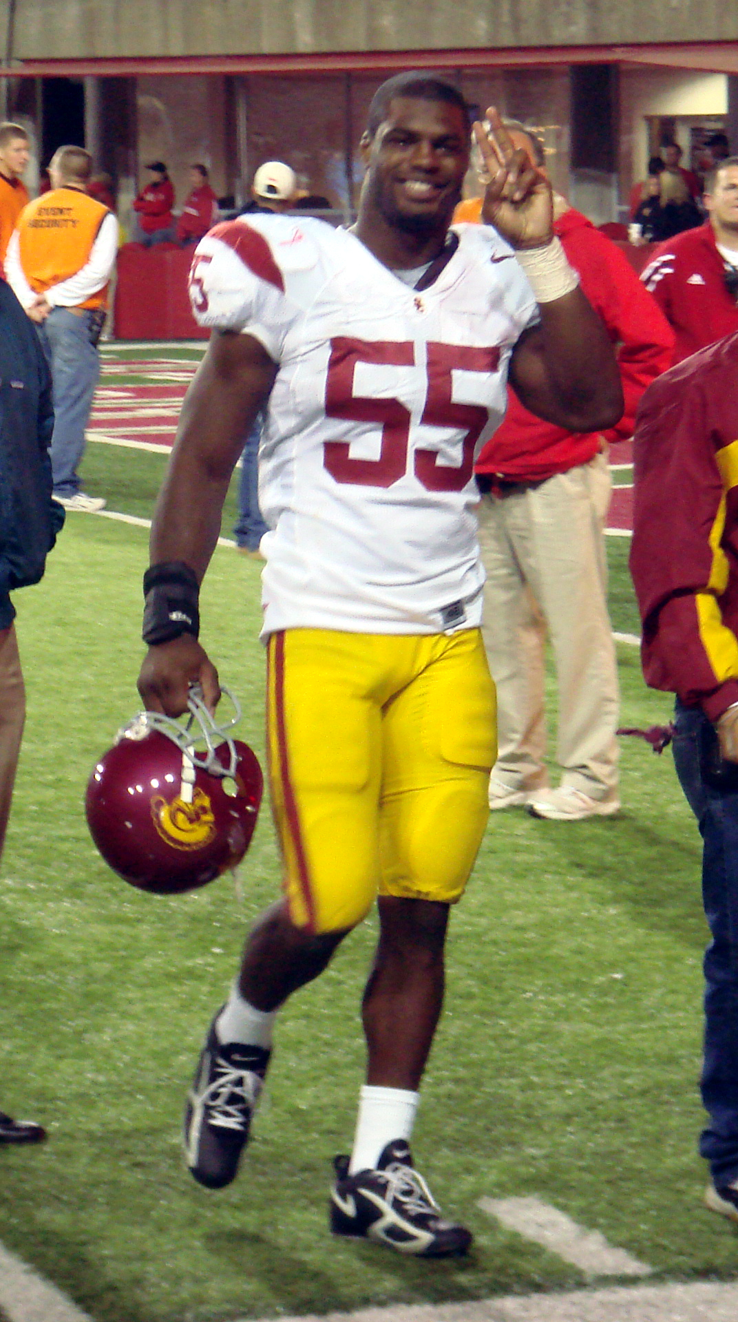 Linebacker Keith Rivers celebrates a USC victory over Nebraska. He is making the traditional USC Trojan "V" for victory hand sign.